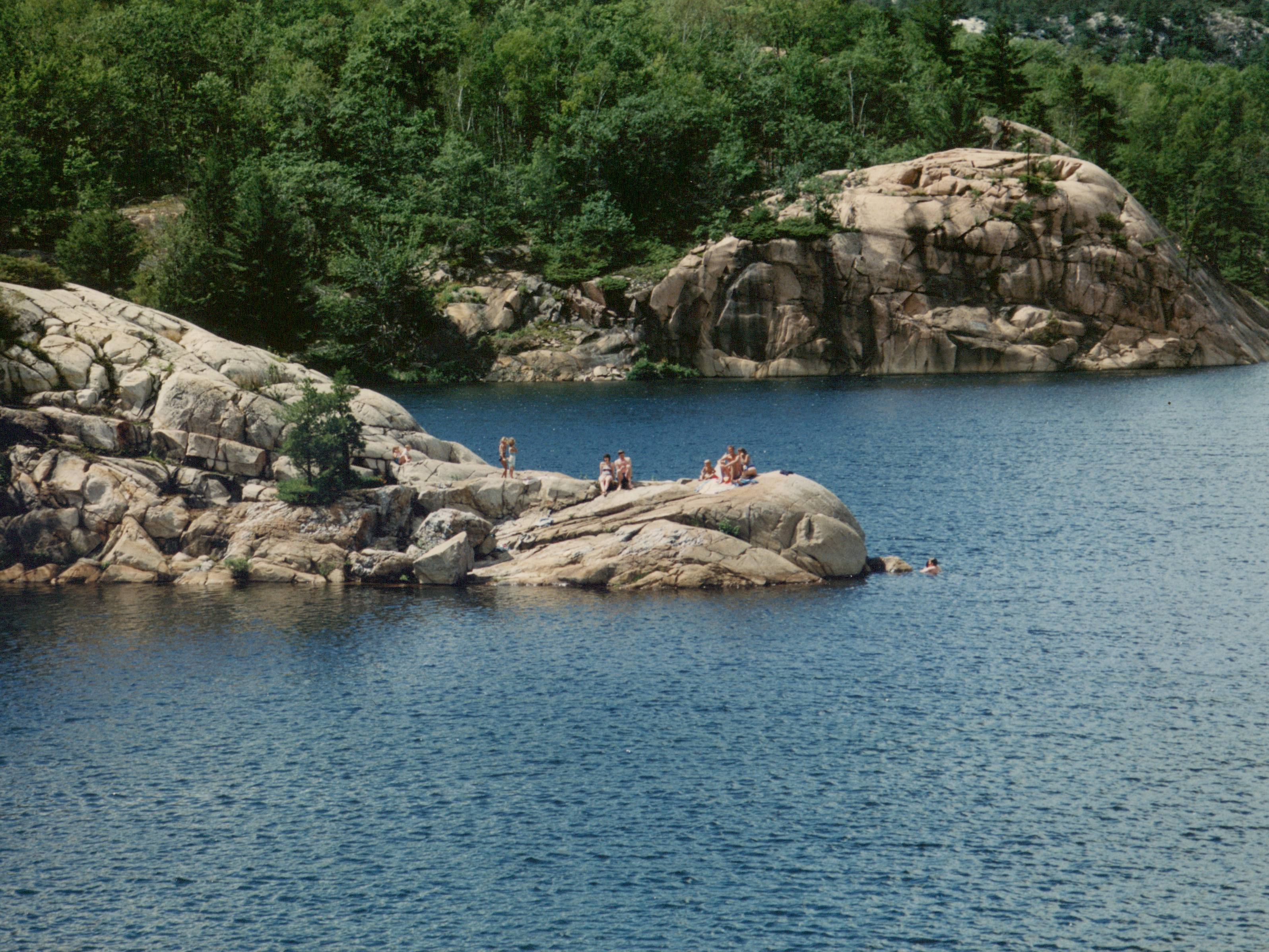 George Lake: Turtle Rock as seen from Diver's Peak. Photo: Benjamin Beer, 1991